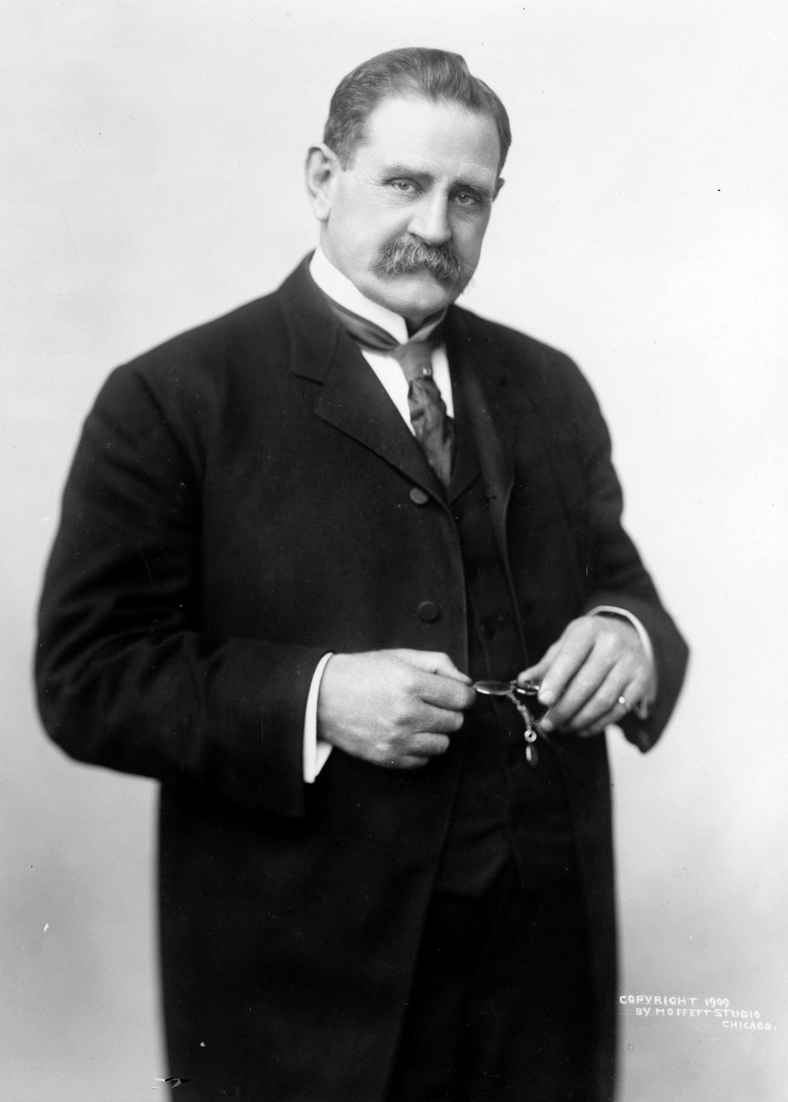 Jacob M. Dickinson, former U.S. Secretary of War.